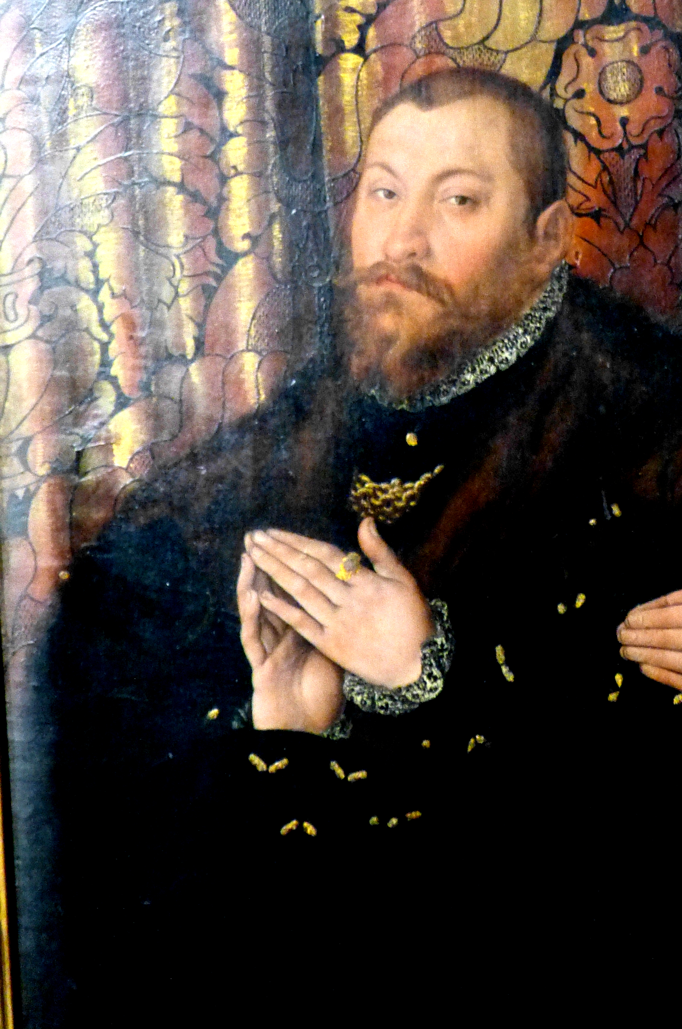 Weimar ( Thuringia ). Herder church: Altar ( 1555 ) of the crucifixion of Christ by Lucas Cranach the Younger - right wing: Sons of Johann Friedrich, duke of Saxony - Johann Freidrich II, Johann Wilhelm and Johann Friedrich III.